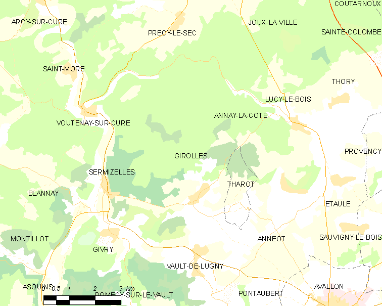 Map of French municipality Girolles